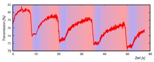 Belousov-Zhabotinsky_reaction self drawn